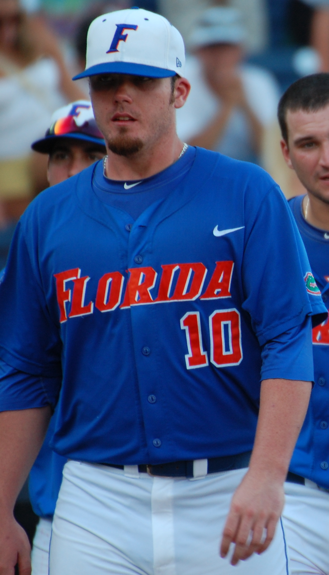 Florida Gator players heading back to the dugout after shaking hands with Kent State Golden Flashes players at the 2012 College World Series